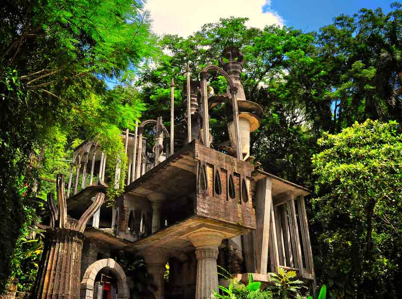 The main building with 'Staircase to Heaven' at the highest point, 4 stories above the ground, consider - no handrails, it's a steep spiral and narrow staircase leading upwards to a small platform seemingly hanging in space.